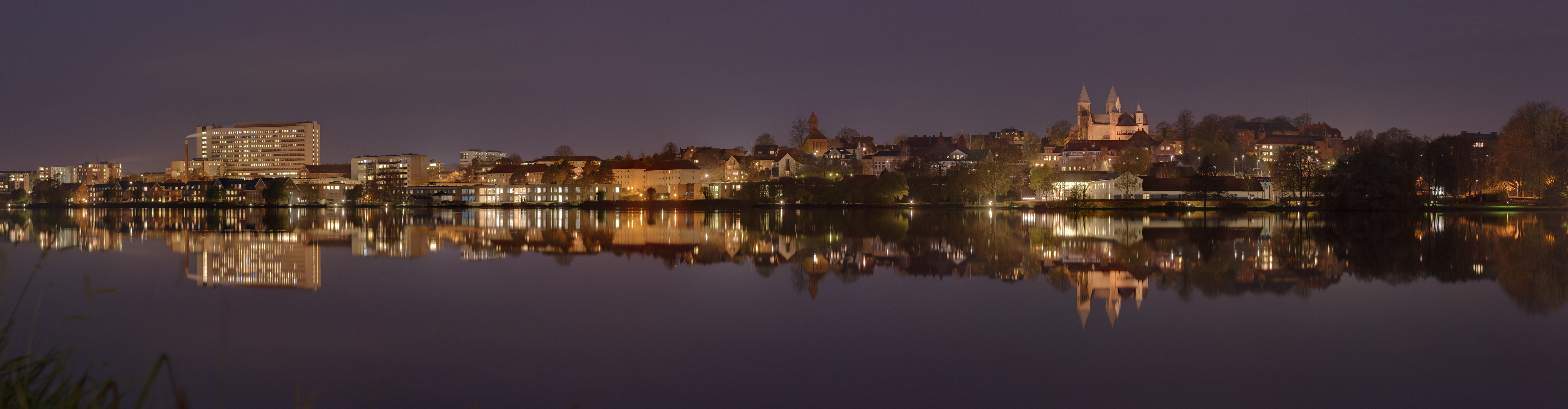 The southern part of Viborg, Denmark as seen from the eastern side of Søndersø lake